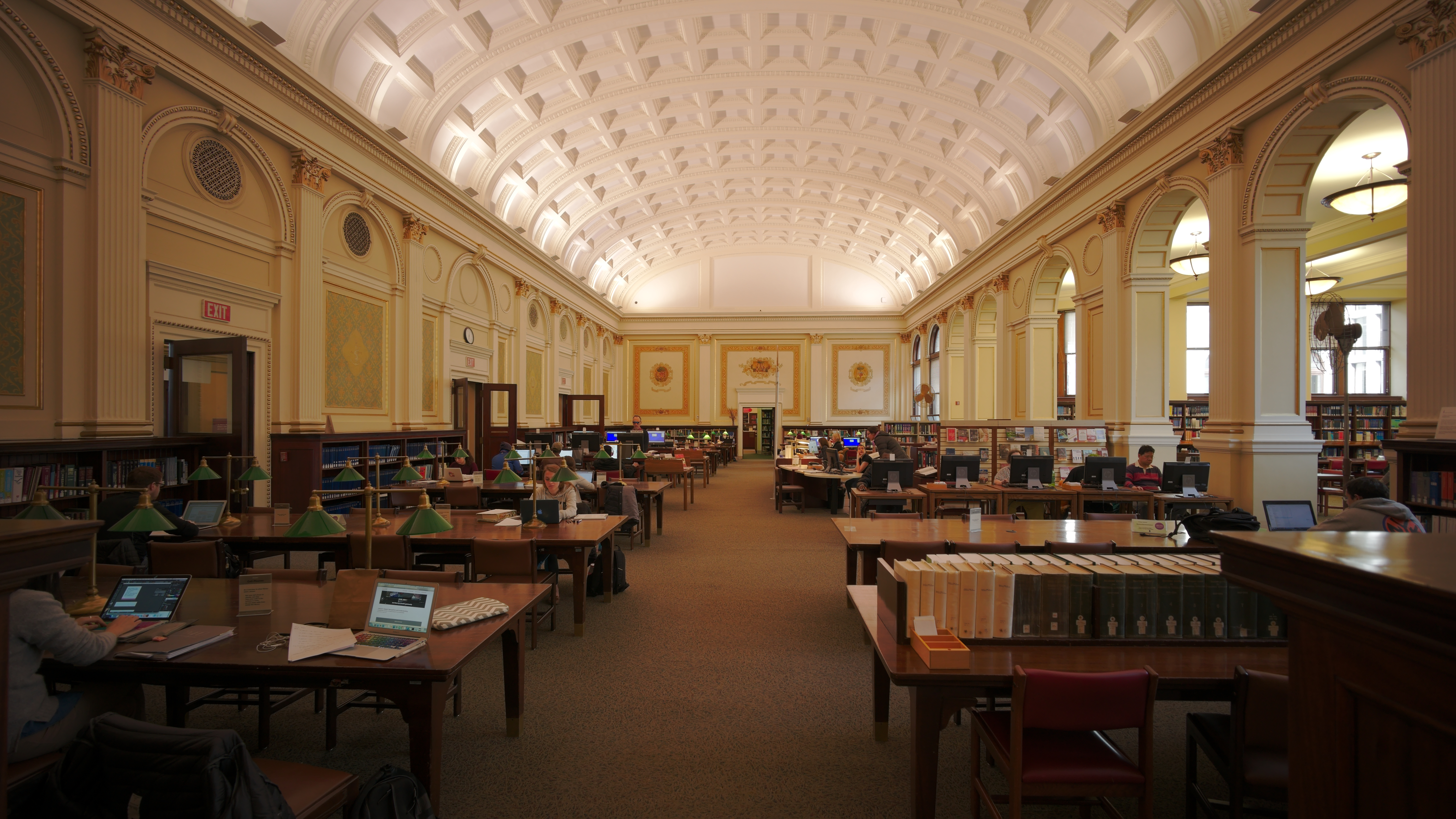 Interior of the main branch of Carnegie Library of Pittsburgh, a public library in Pittsburgh. The main library opened in 1895.